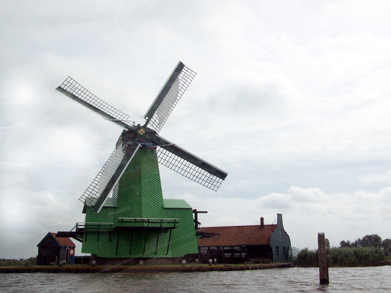 Windmill De Gekroonde Poelenburg in the Zaanse Schans